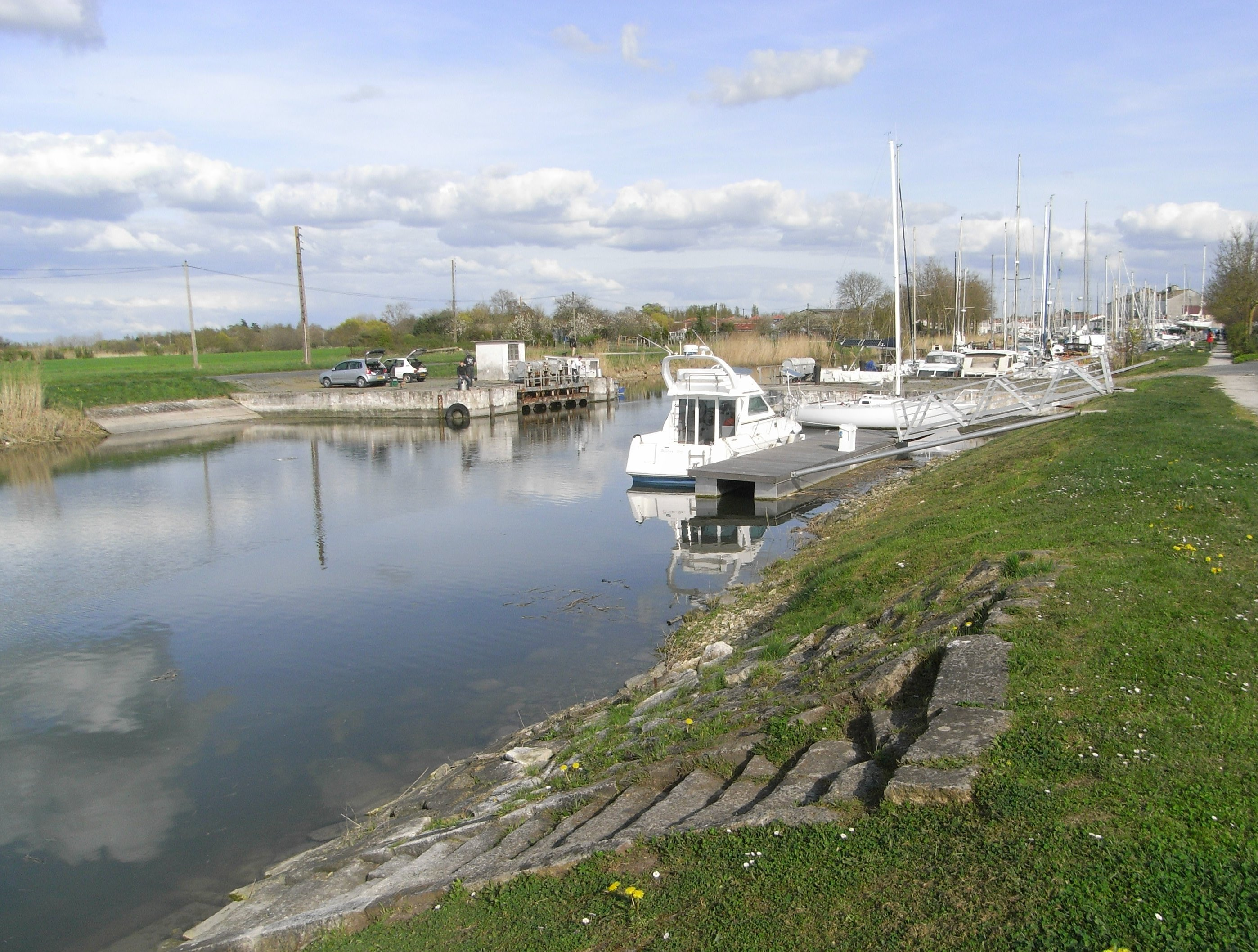 Canal maritime du Brault (French)